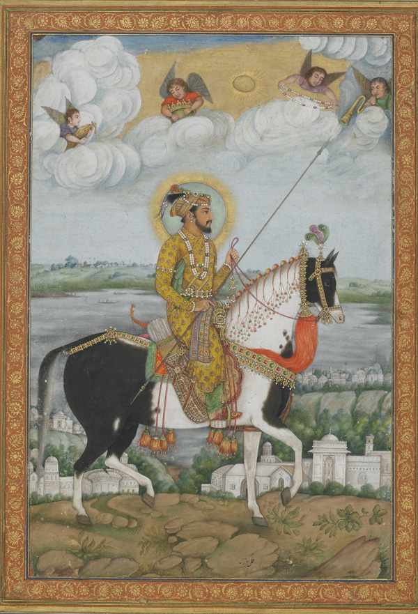 Equestrian Portrait of the Emperor Shah Jahan from the Kevorkian Album early 17th century Shah Jahan (r. 1628–55) Opaque watercolor and gold on paper H: 26.8 W: 18.1 cm India Purchase F1939.46a Shah Jahan, the third son of Jahangir, was reputed to be the wealthiest of all Mughal emperors and surrounded himself with opulent and sumptuous buildings. He was also the most ambitious of Jahangir's sons; he deposed the rightful heir to the throne and revolted against his father, causing considerable internal turmoil. Shah Jahan himself faced the rivalry of his son, Awrangzib, who deposed in father in 1658 and had him imprisoned for eight years at Agra, where he died. Shan Jahan was an ardent builder; he restored Agra which was founded by Akbar, his grandfather, and constructed a new city called Shahjahanabad where he spent most of his time. He is probably best remembered for the construction of the Taj Mahal, the splendid mausoleum commemorating his wife, Mumtaz Mahal, who died in 1631 while giving birth to their fourteenth child. The equestrian portrait of Shah Jahan depicts the Emperor in full majesty, attired in a dazzling outfit and bedecked with jewels. He strides serenely on a magnificent horse which is decorated with equal splendor. The city in the background most likely represents his newly-founded capital, situated on the shores of the Jumma River, a few miles north of Agra. The angels above herald his coming and offer him symbols of royalty: a jeweled garland, a crown and a sword wrapped in brocade. The painting is signed by Govardhan, who was previously employed by Jahangir. This artist specialized in portraiture and represented the princes and nobles of the court as well as the more humble members of the society, such a musicians, Mullahs (Muslim theologians) and ascetics.